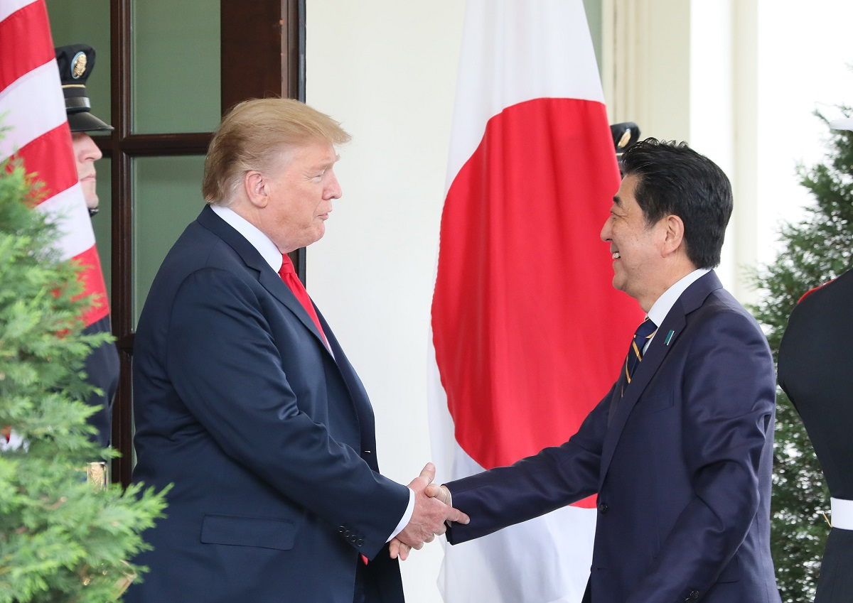 Donald Trump greeting Shinzo Abe at the gate